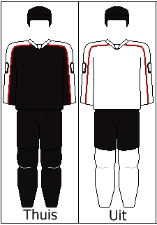 Uniform of the JYP ice-hockey team in the SM-liiga in Finland (in Dutch)